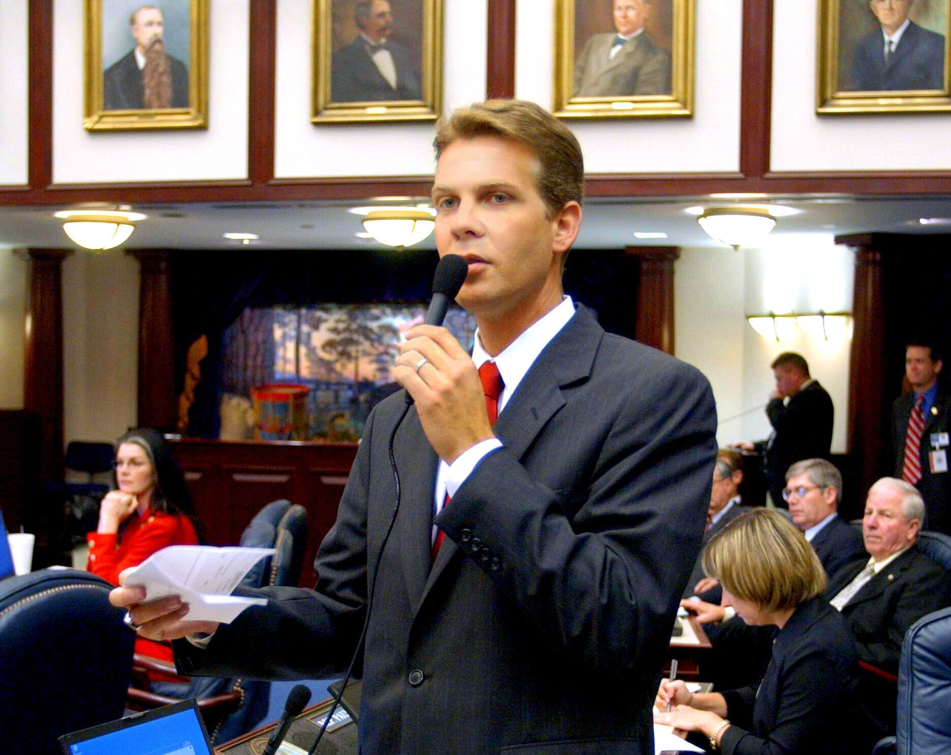 Rep. Andy Gardiner, R-Orlando, answers a question on the House floor during the 2003 Legislature.